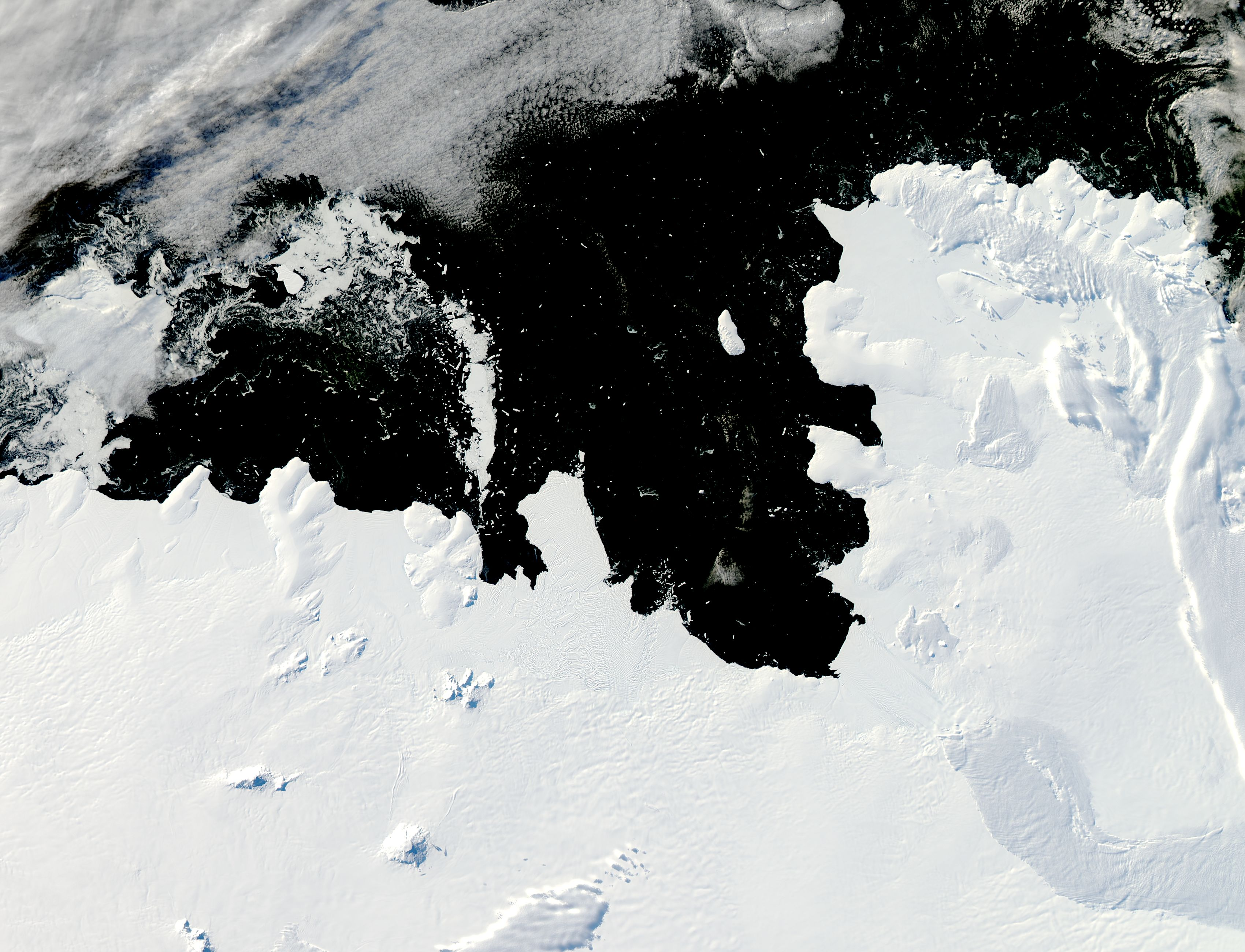 Pine Island Bay is tucked into a corner of the West Antarctic’s Walgreen Coast. The bay, which opens to the Amundsen Sea, is typically filled with sea ice at this time of year, but when this image was taken, the bay was largely ice-free. Acquired at the end of the Antarctic summer, the image is illuminated by fairly low-angled sunlight, which highlights raised and textured areas, including ice-covered peninsulas and the corrugated surface of iceberg B-22A. B-22A broke from the Mertz Glacier Tongue several thousand miles to the west; it may be grounded on a submarine shoal. Northwest of the iceberg is a combination of sea ice and grounded icebergs. This sea ice/iceberg feature has been larger in recent Antarctic summers than it appears in this image. The coast of Antarctica not only has sea ice that comes and goes from year to year, but also longer-lasting ice shelves (thick slabs of ice attached to the coastline that partially float on the ocean surface). Among the ice shelves on the Walgreen Coast is Dotson Ice Shelf. Although most of the surface appears smooth, several long cracks appear to trace the leading edge of the shelf, hinting that the margin may calve some long, narrow icebergs in coming summers. The presence or absence of sea ice affects both ocean surface waters and ice shelves. Thanks to its light colour, sea ice reflects much of the Sun’s energy back into space, keeping underlying ocean waters cool. Without a cover of sea ice, the surface waters of the ocean warm. The exposure to sunlight also makes it possible for phytoplankton to bloom. West of the line of grounded icebergs, the ice floating in the Amundsen Sea takes on a greenish colour; this may be due to phytoplankton or algae. When it comes to ice shelves, a sea-ice cap on the ocean surface dampens wave energy that might otherwise trigger ice-shelf retreat.